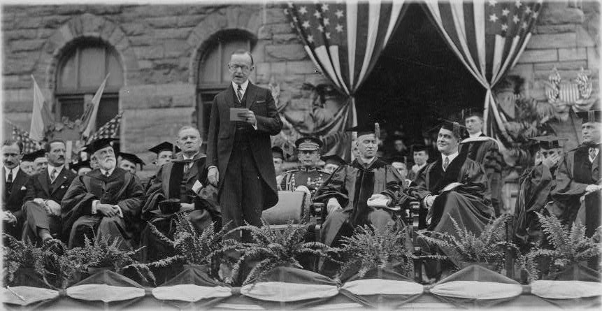 Calvin Coolidge, president of the United States, addresses graduates of Georgetown University in front of Healy Hall. In the background are Justice Pierce Butler, Rev. John B. Creeden, and Rhode Island Governor William S. Flynn.